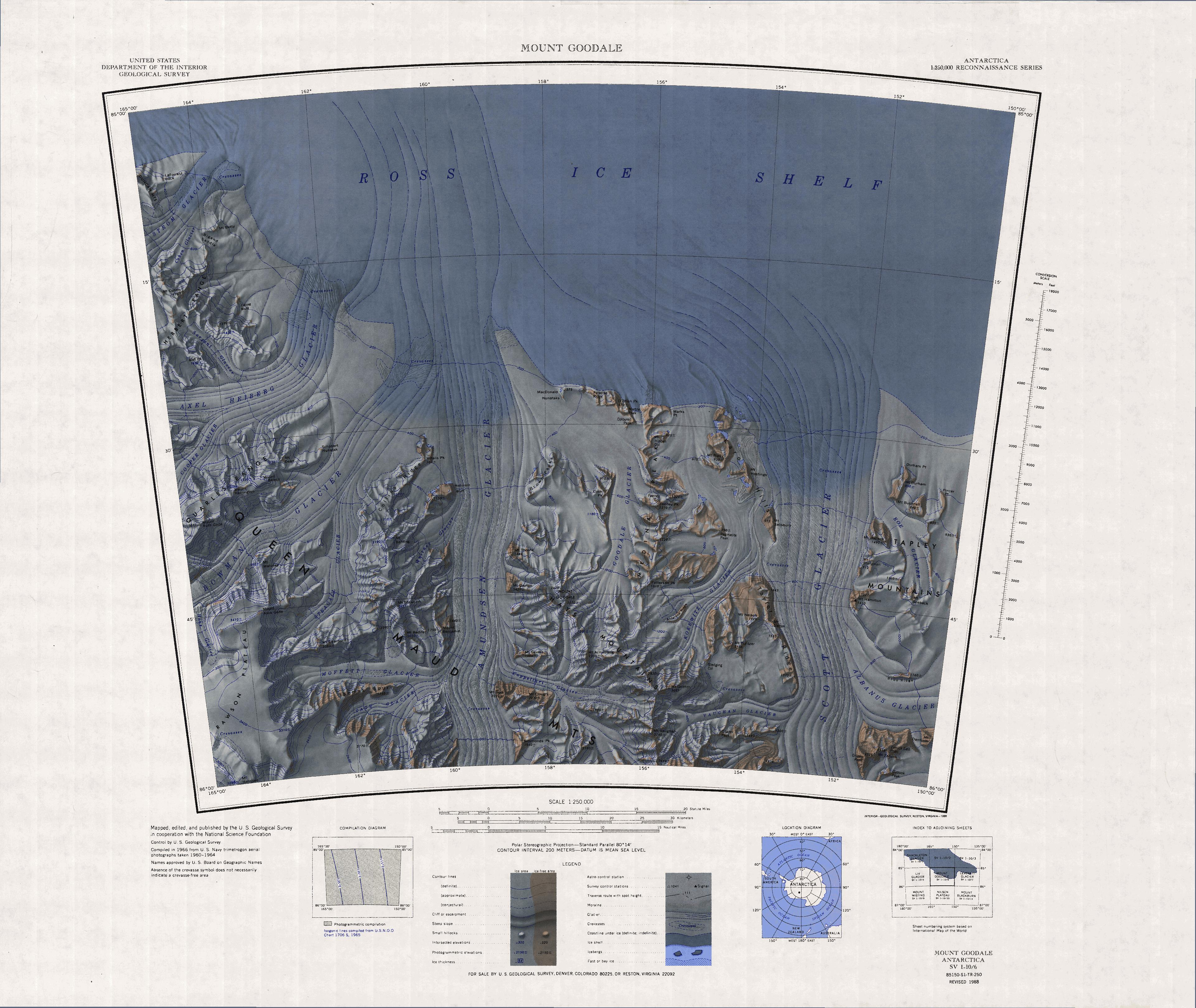 Topographic Reconnaissance map sheet 1:250,000 of southernmost portion of Ross Ice Shelf, Antarctica